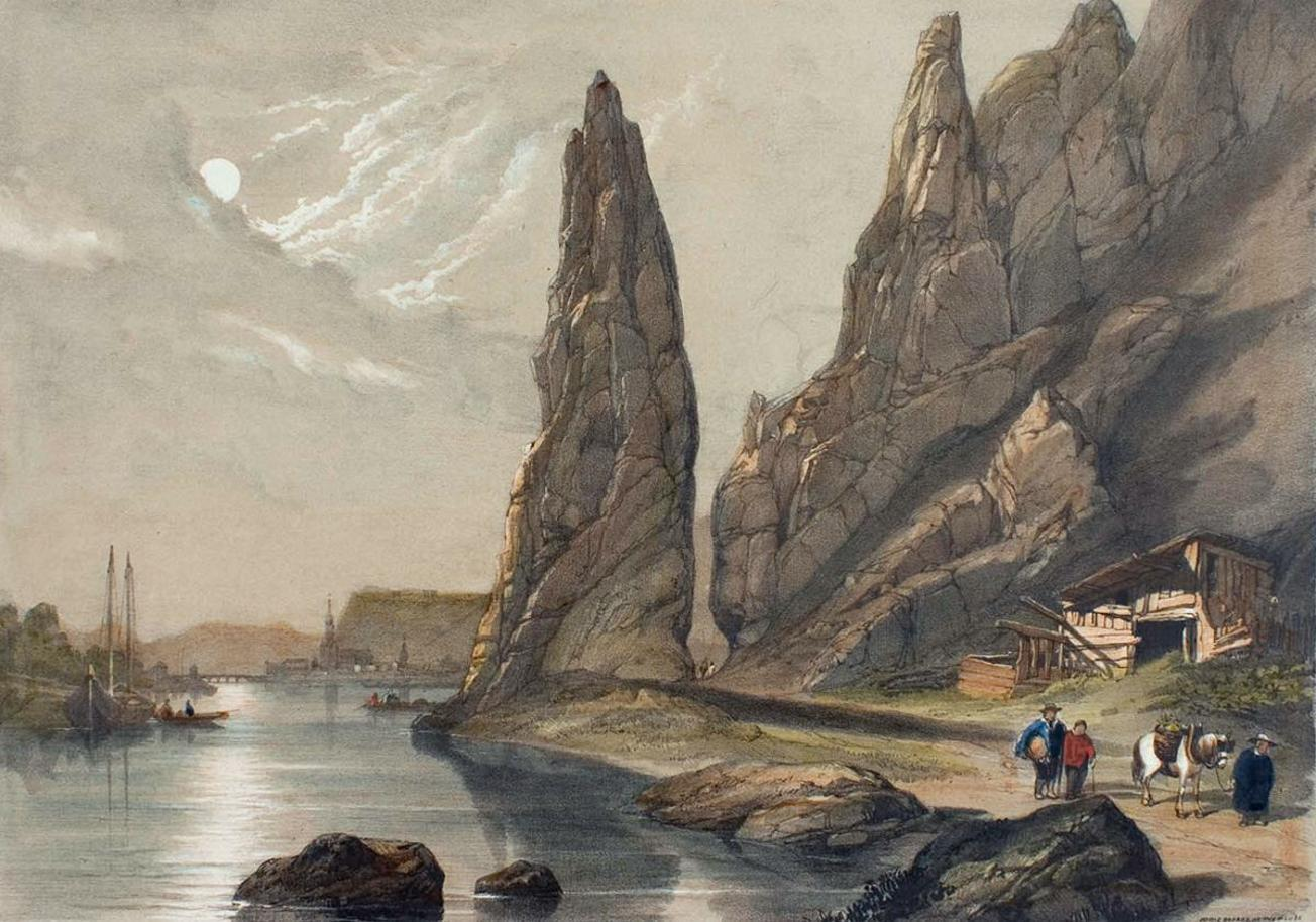 Roche a Bayard on the Meuse by moonlight